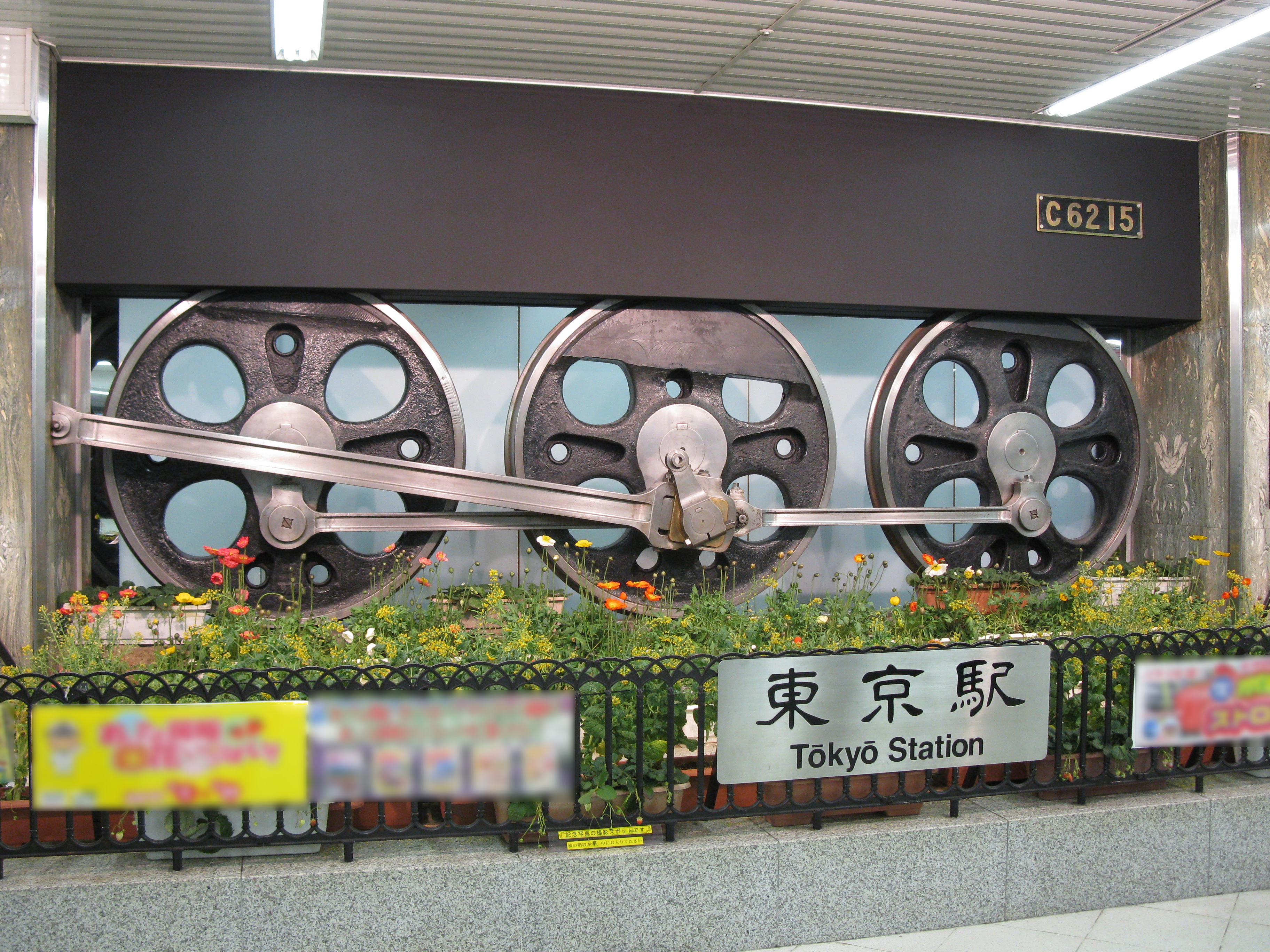 JNR C62 steam locomotives no.15's wheels at Dōrin Square, Tōkyō Station